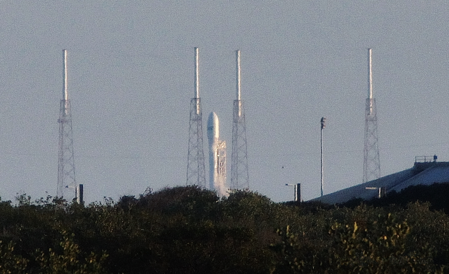 The SpaceX Falcon 9 rocket carrying the SES-8 communications satellite sits at Cape Canaveral SLC-40 prior to launch.